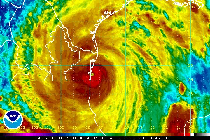 Infrared satellite view of Hurricane Alex (2010) at landfall in northeastern Mexico.